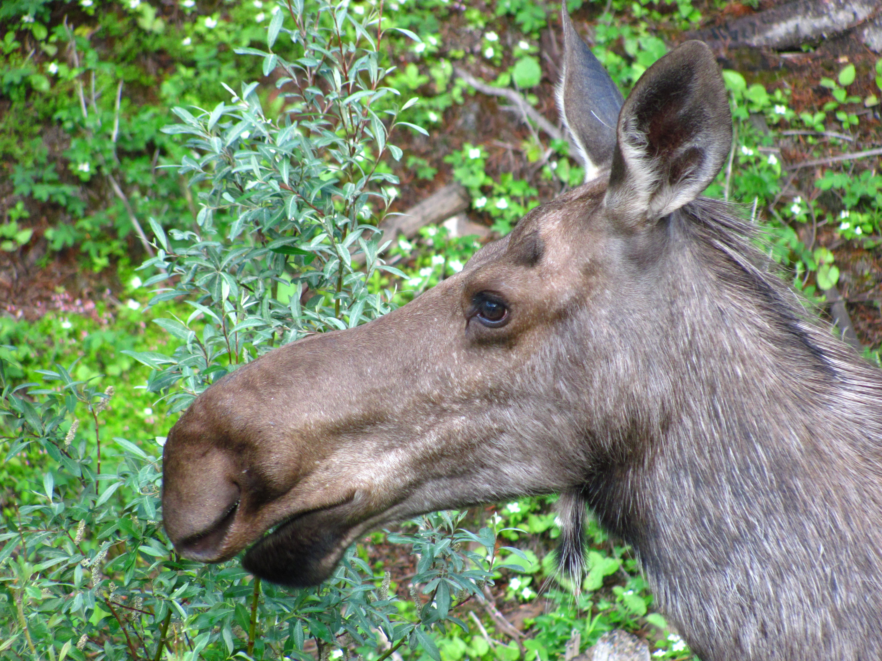 Cow moose